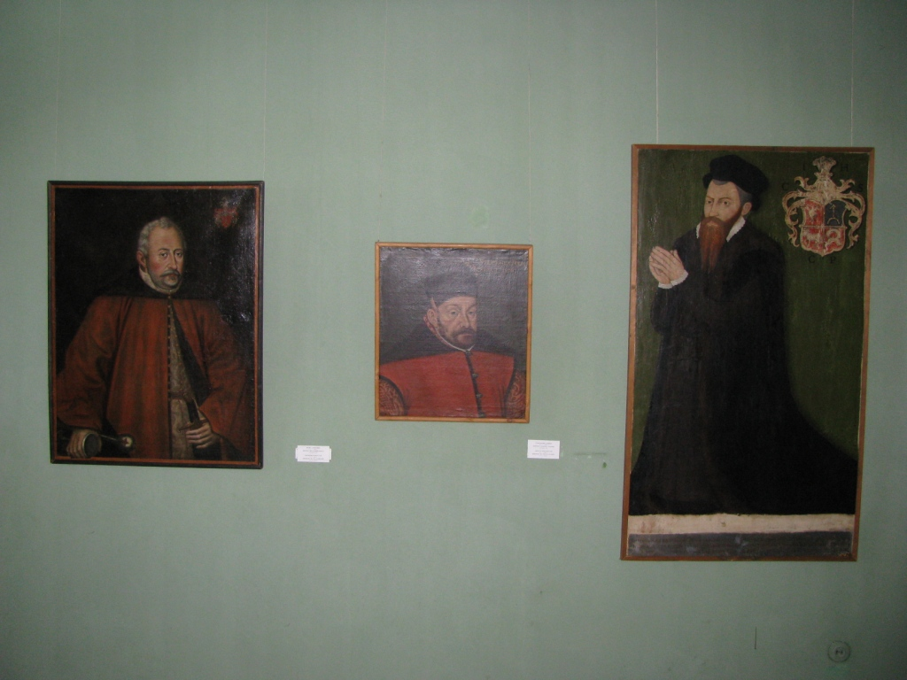 From left:Portrait of Hetman Jan Zamoyski, author Jan Szwankowski, before 1602; portrait of king Stefan Batory.